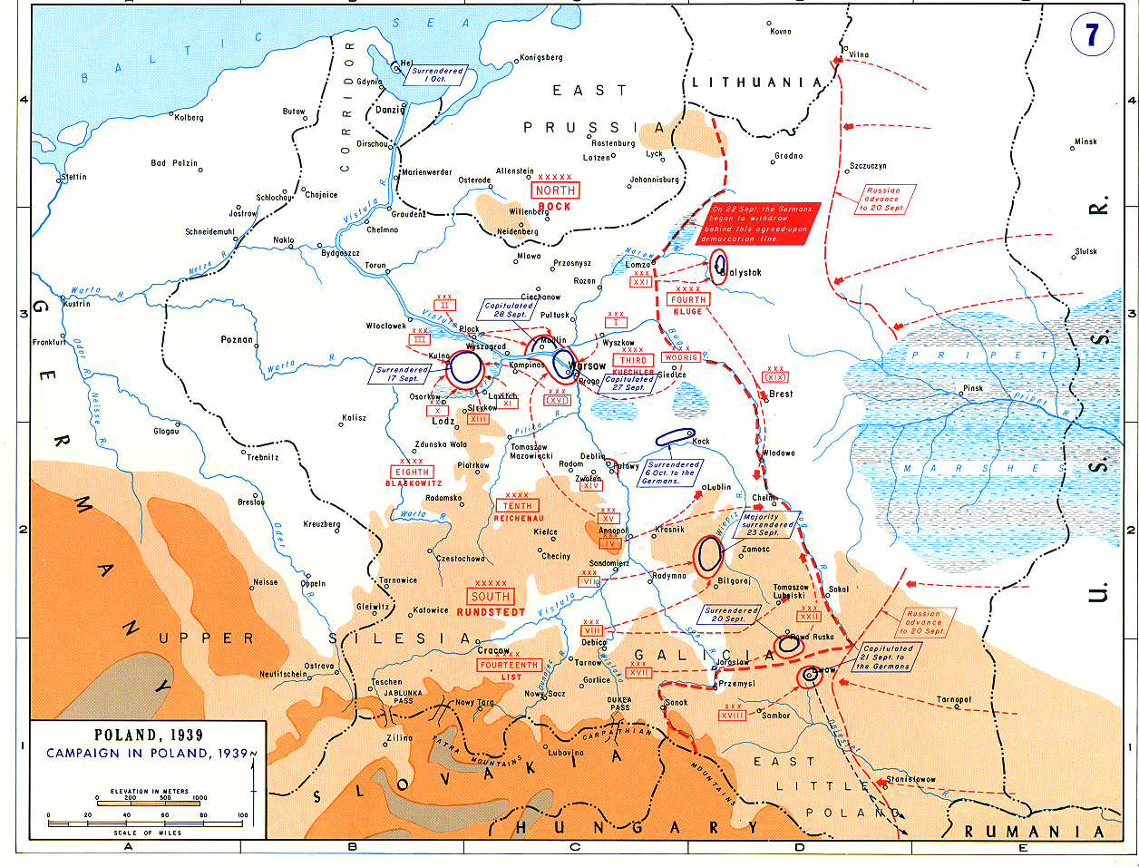 Polish Campaign - Operations - September 14 and afterwards. This map does not include Slovak Army activity in the South of Poland.